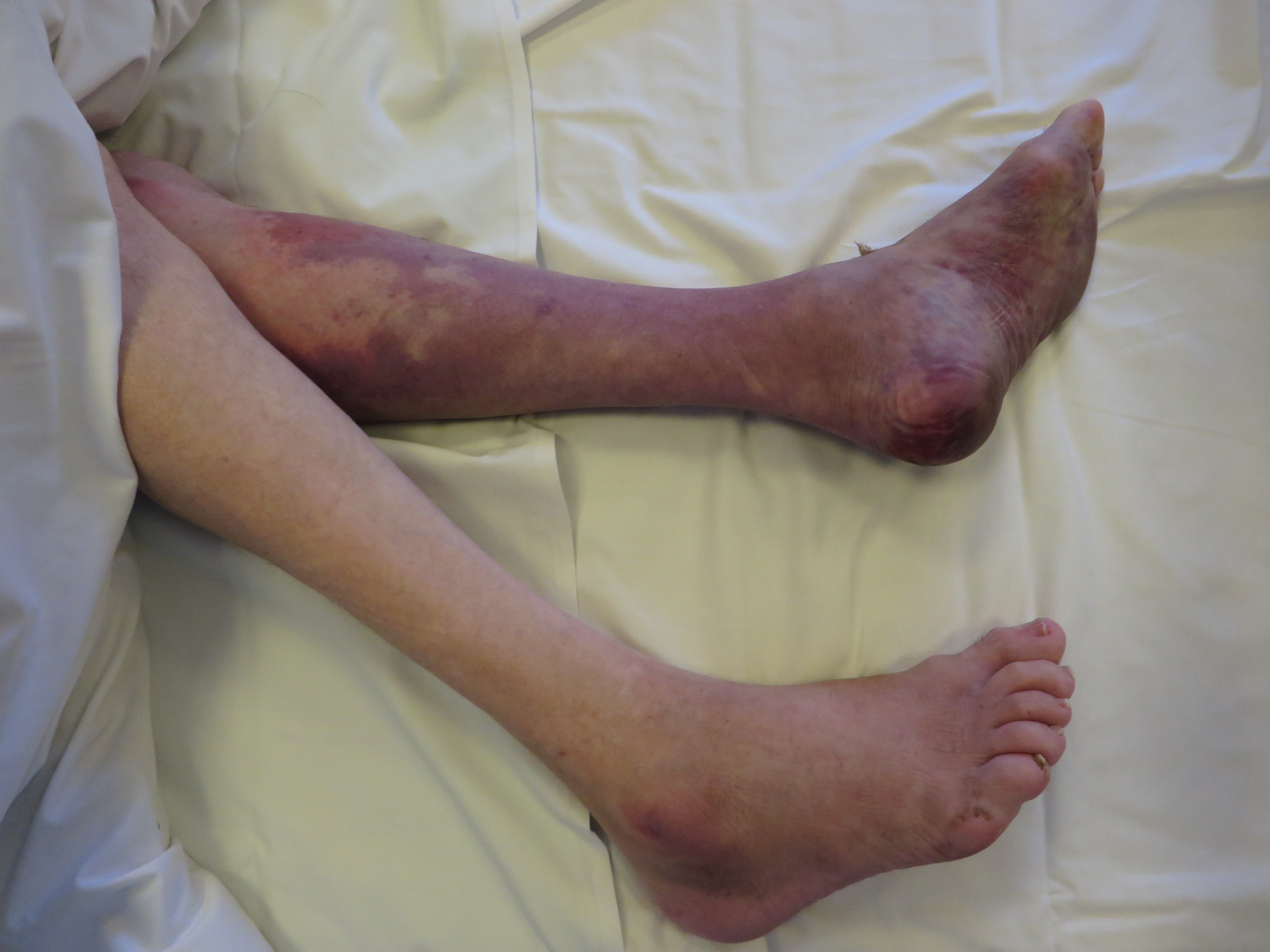 Crush syndrome with left lower extremity all tissue deth from knee.